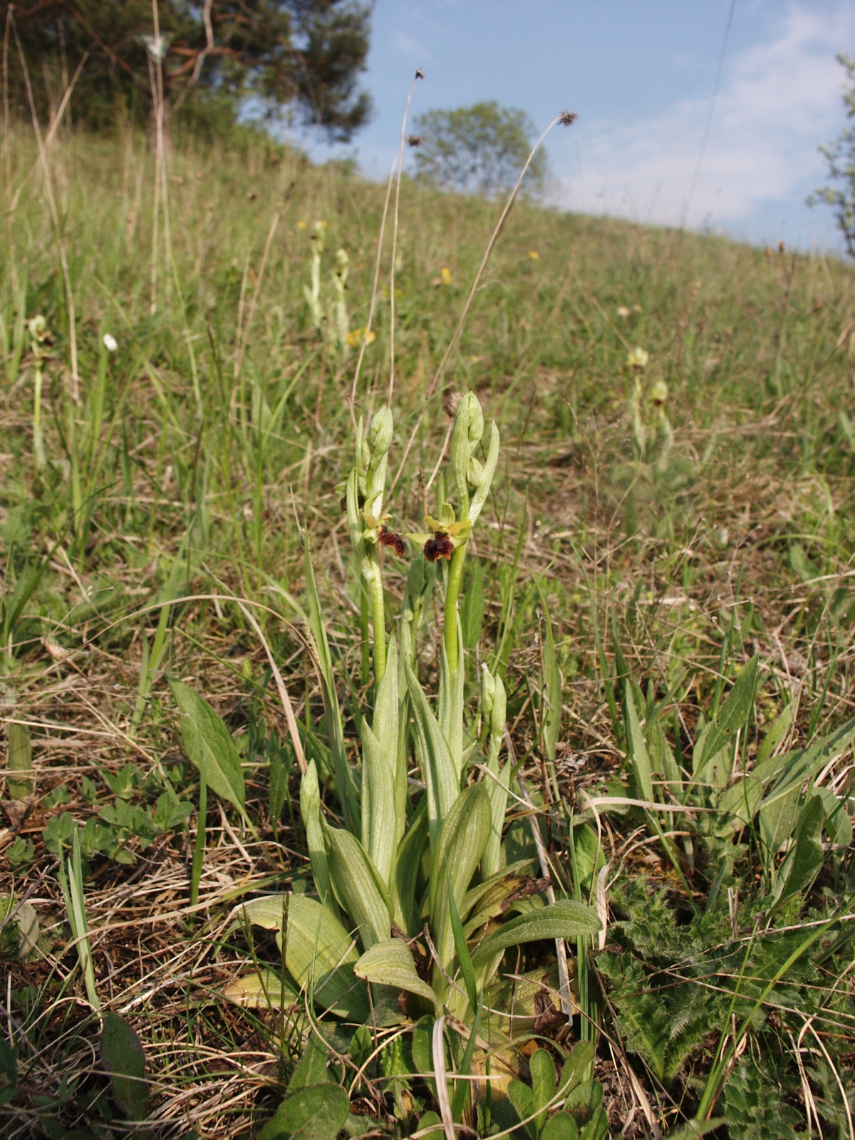 Ophrys sphegodes, Hohenlohe, Germany